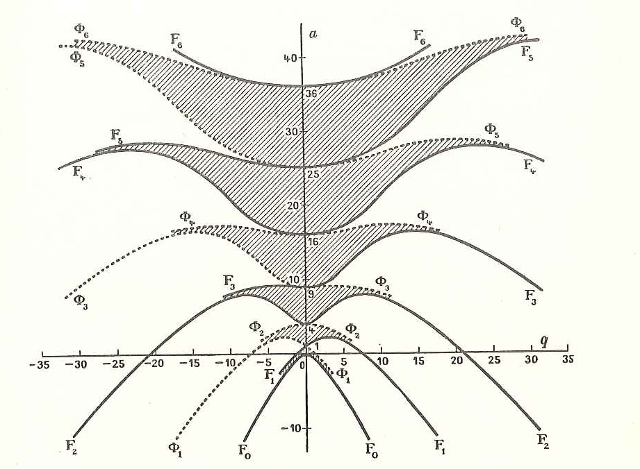 Mathieu functions - characteristic numbers a as a function of the parameter q